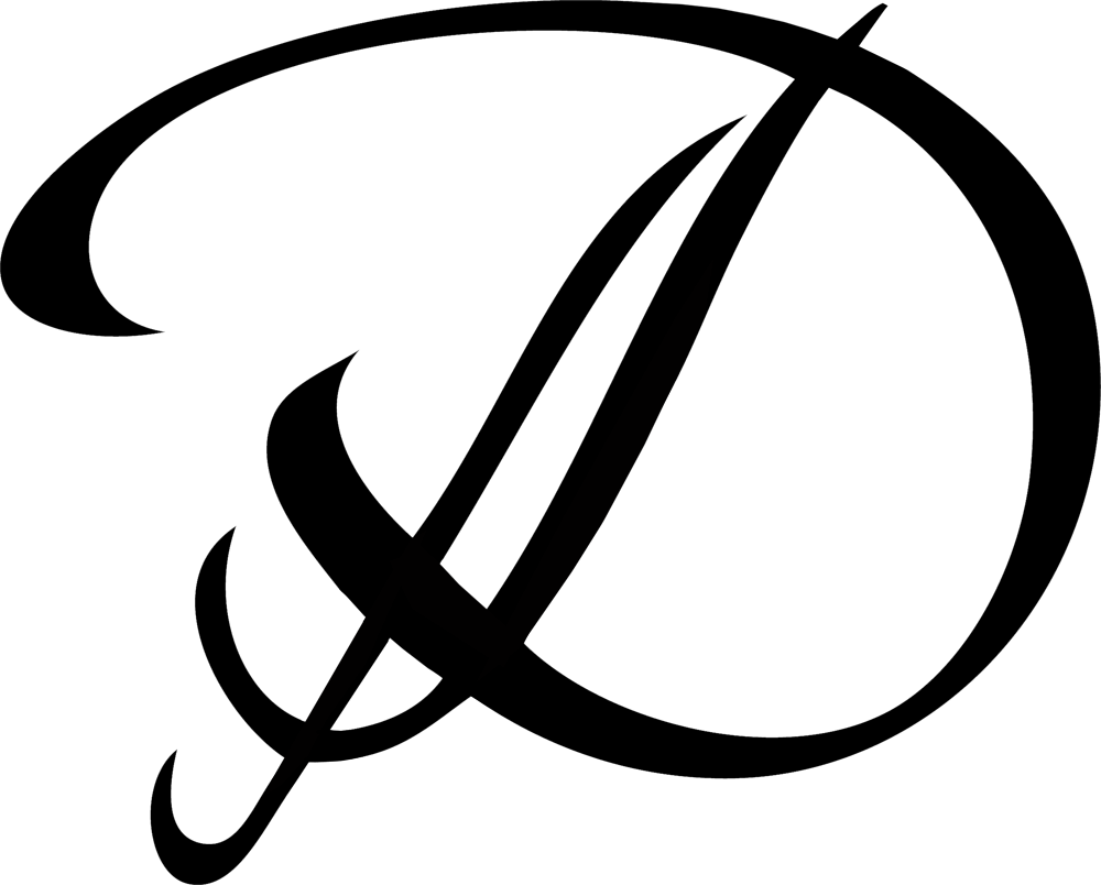 Japanese band E's logo.